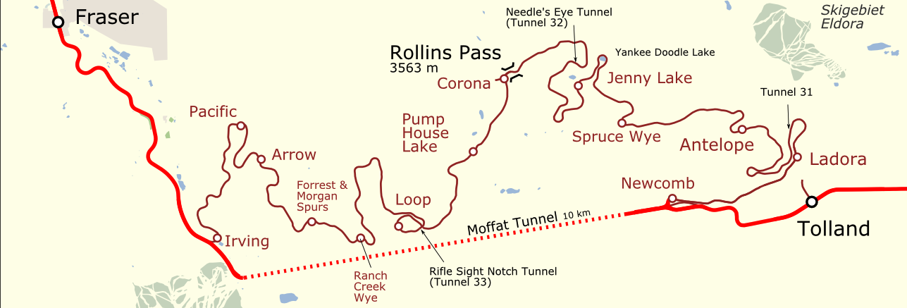 Cropped version of Wikimedia File photo: Moffat tunnel rollins pass.png